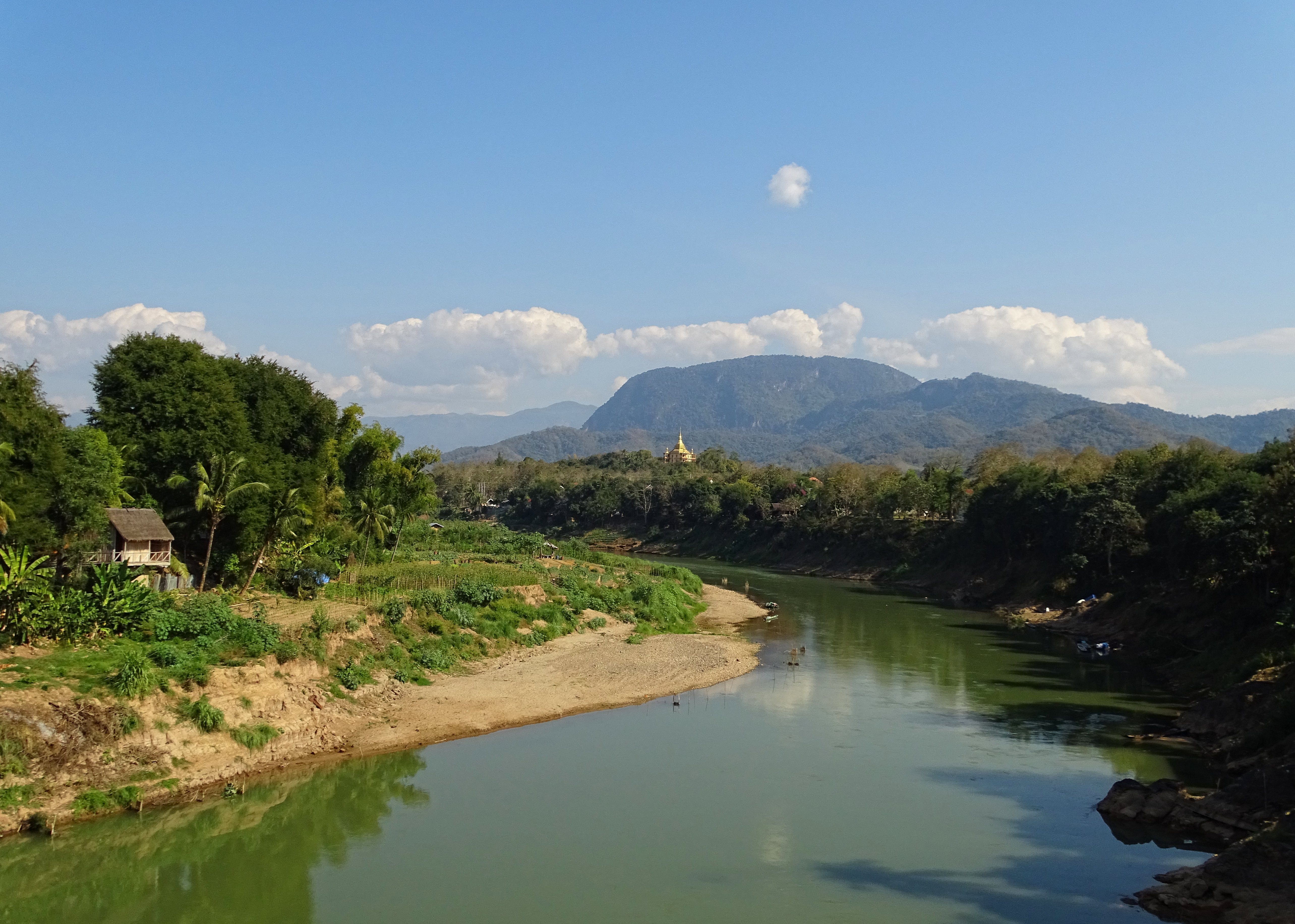 The river Nam Khan flowing through Luang Prabang, Laos. In the background is Wat Phon Phao visible surrounded by greenery.